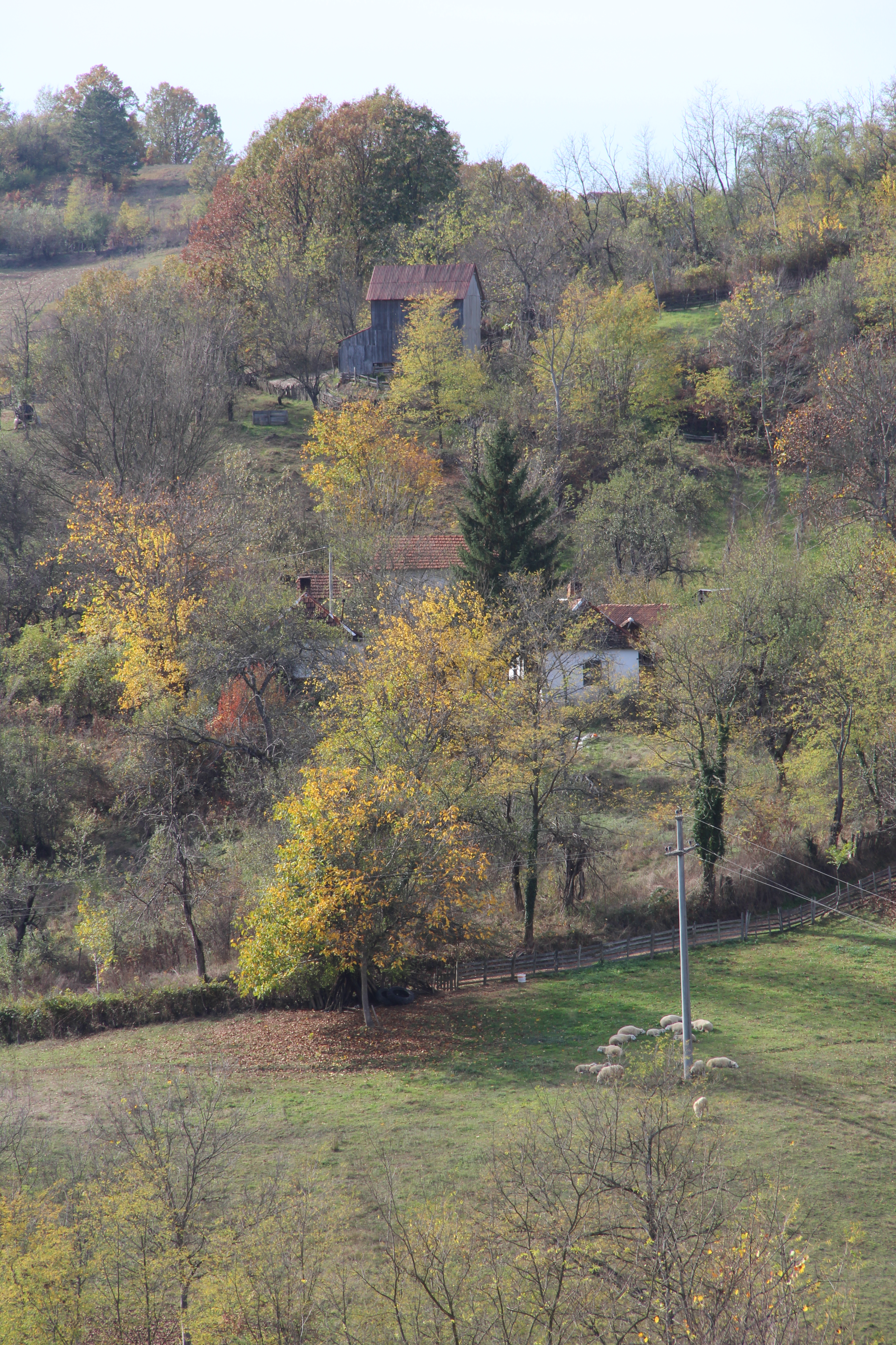 Plužac village - Municipality of Osečina - Western Serbia - panorama 8